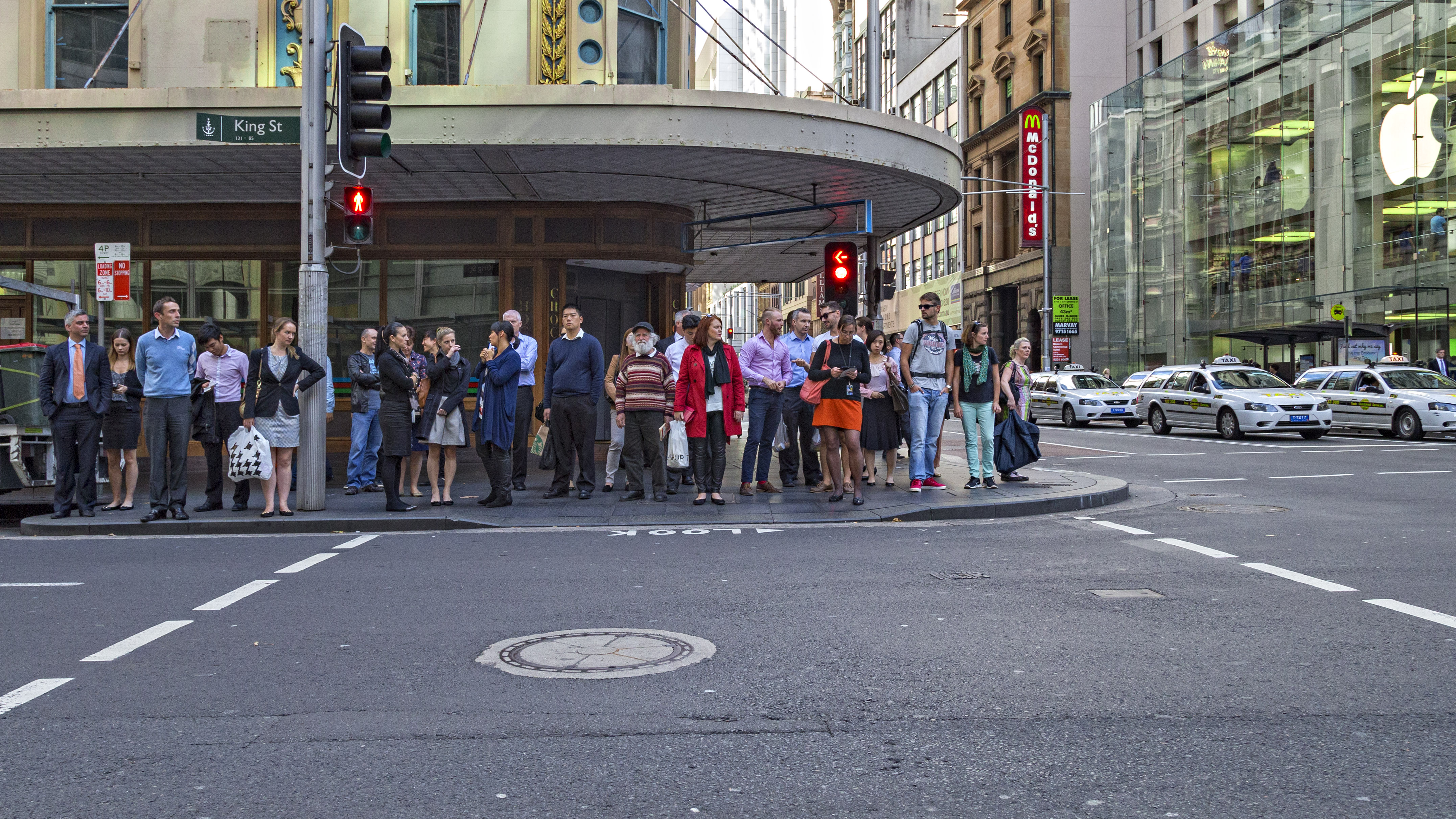 Crossing on King Street